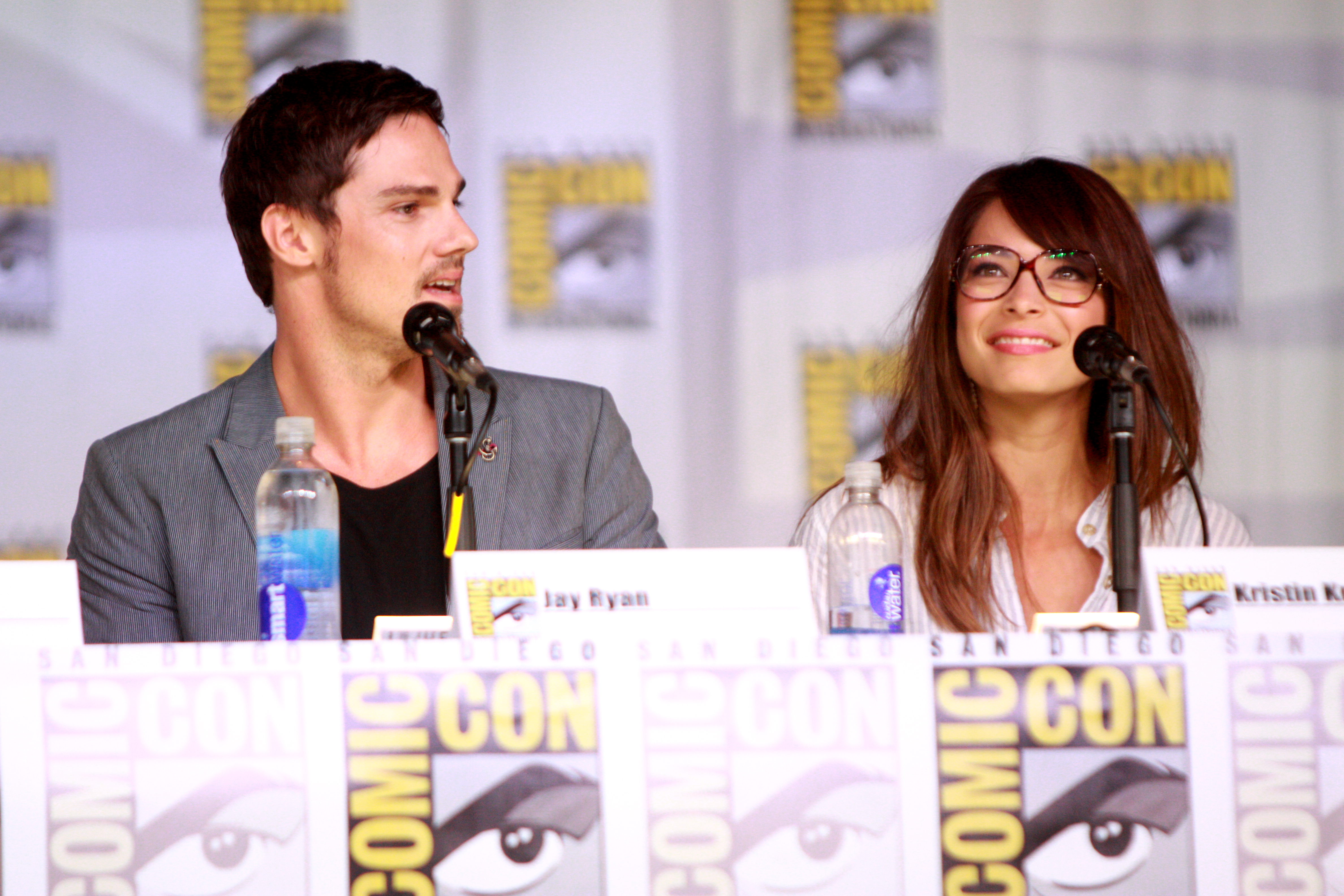 Jay Ryan and Kristin Kreuk speaking at the 2013 San Diego Comic Con International, for "Beauty and the Beast", at the San Diego Convention Center in San Diego, California.